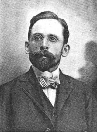 Hale K. Darling